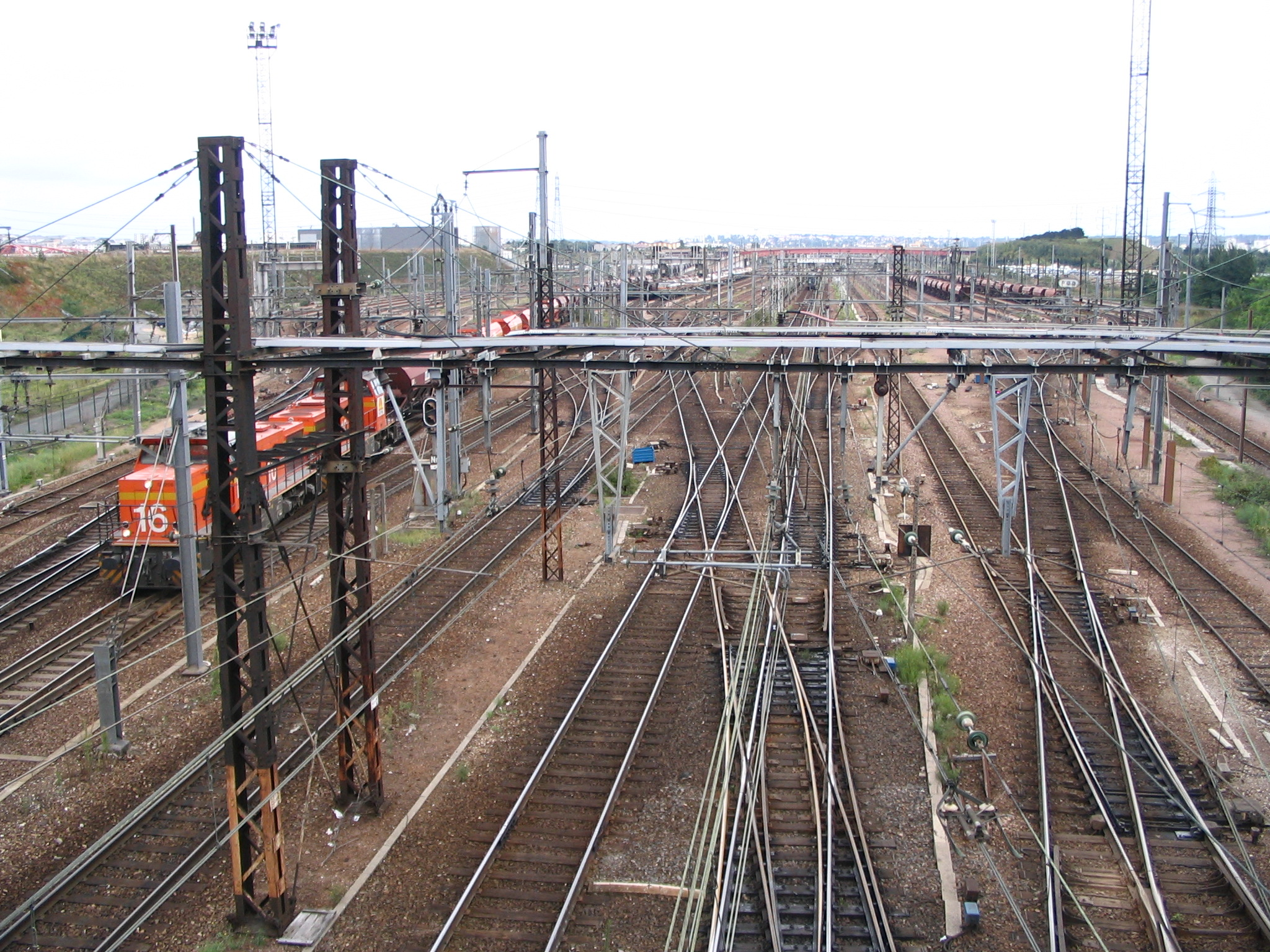 Valenton's classification yard, in Val-de-Marne, France.